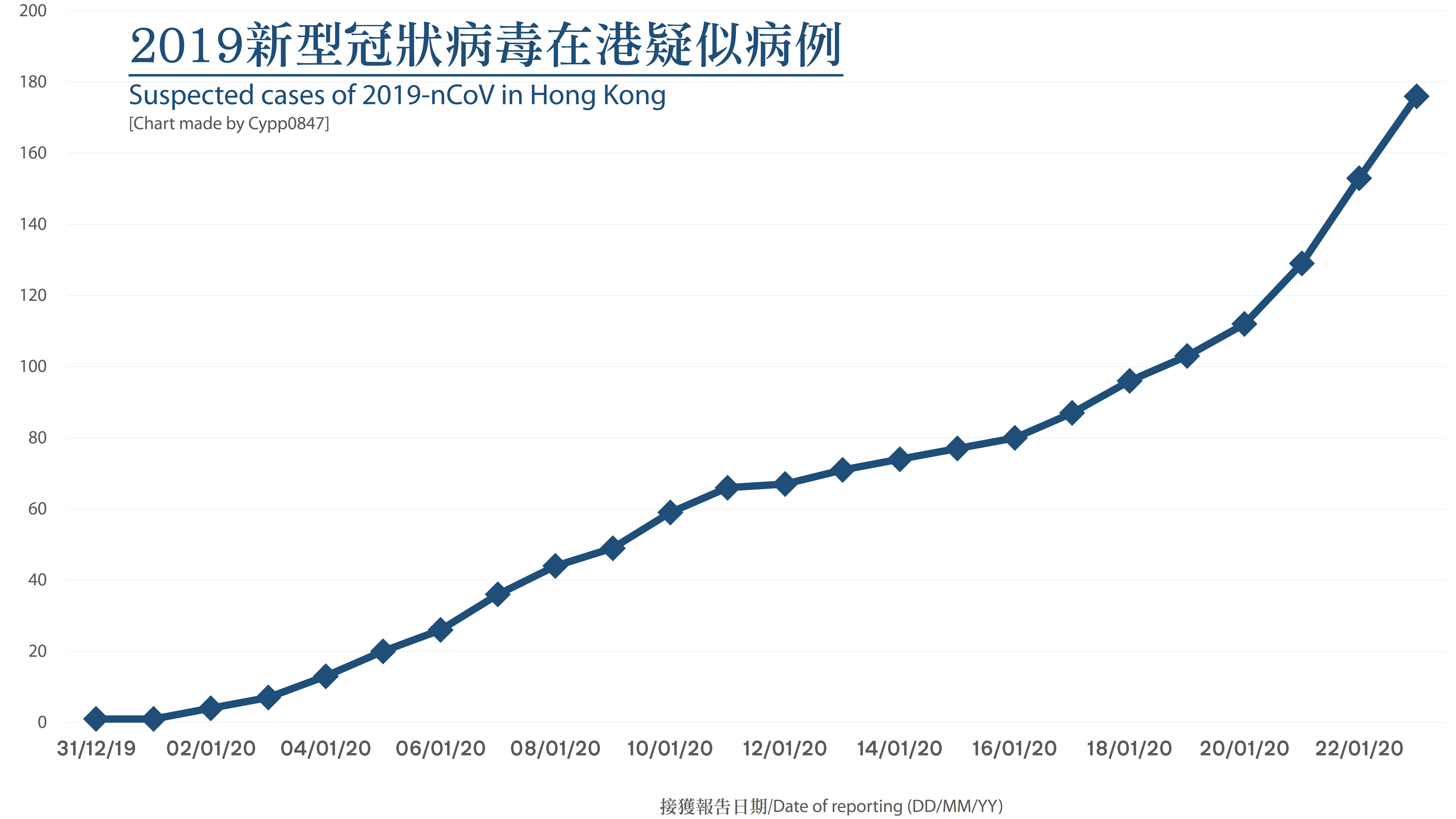 Suspected cases of Wuhan pneumonia in Hong Kong